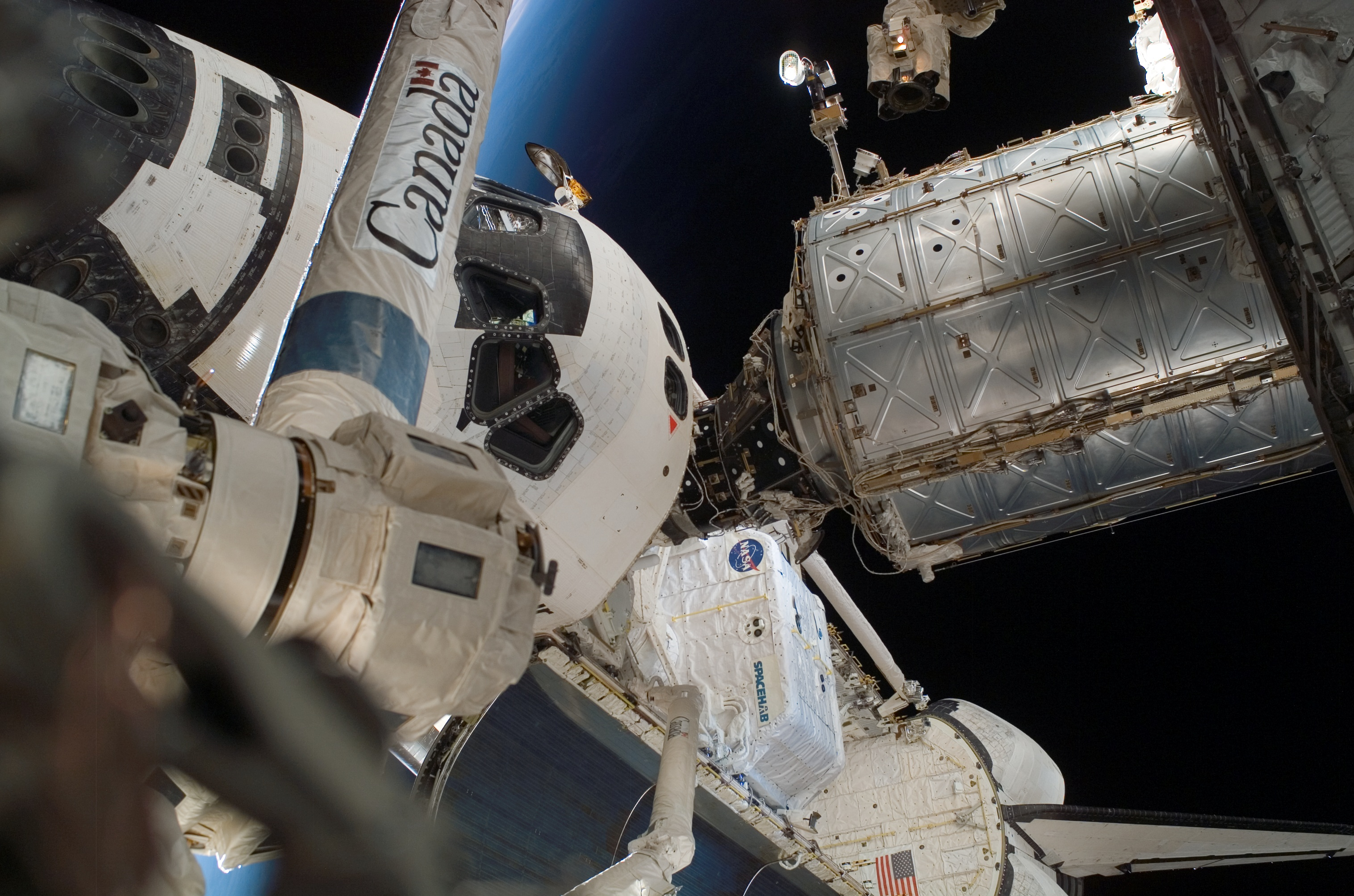 Most of the surface elements of the Space Shuttle Endeavour are visible in this unique angle captured during the week's third spacewalk to perform work on the International Space Station. Parts of the shuttle and station's robot arms and the orbital boom sensor system arm are visible in the frame, as well as the SPACEHAB module in the middle of the Endeavour's payload bay.